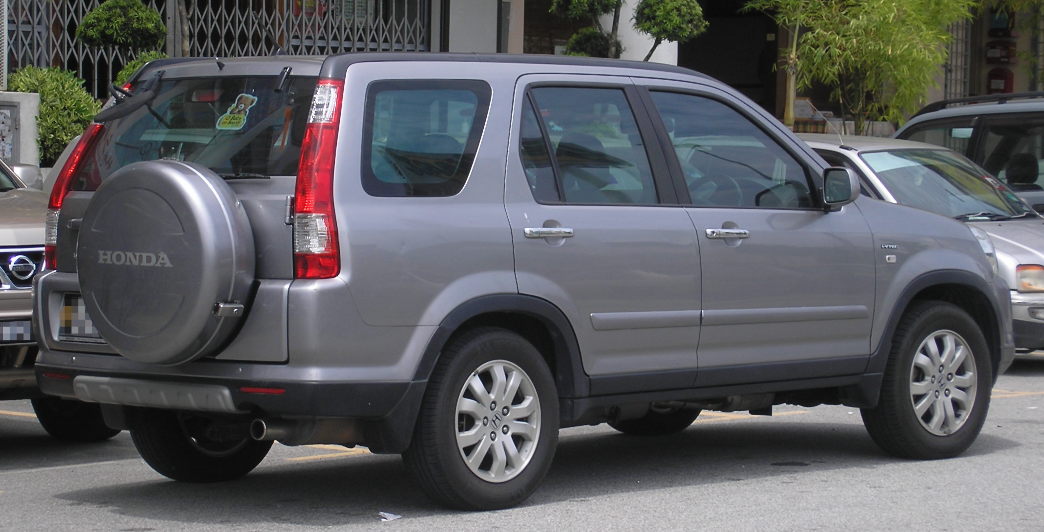 Rear-side shot of a second generation, first facelift Honda CR-V, in Serdang, Selangor, Malaysia.